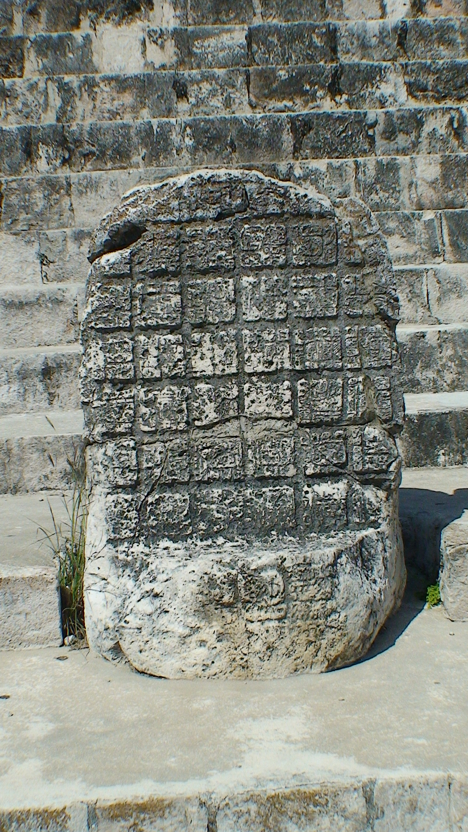 Uxmal, Yucatan, Mexico: Stela 17 in the Monjas cuadrangre